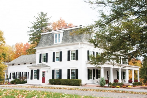 The Brinckerhoff House - Currently the Brinckenhouse Inn